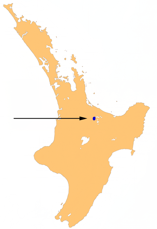 Location map of Lake Rotorua, Rotorua District, Bay of Plenty, New Zealand